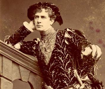 William Terriss, c. 1880 This image was published in both the UK and the U.S. in the 1880s.